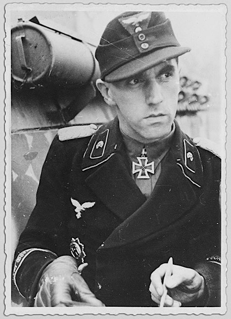 Major Karl Roßmann (23 november 1916 – 1 april 2002), Panzer Division "Hermann Göring"'s officer, 1943-1944